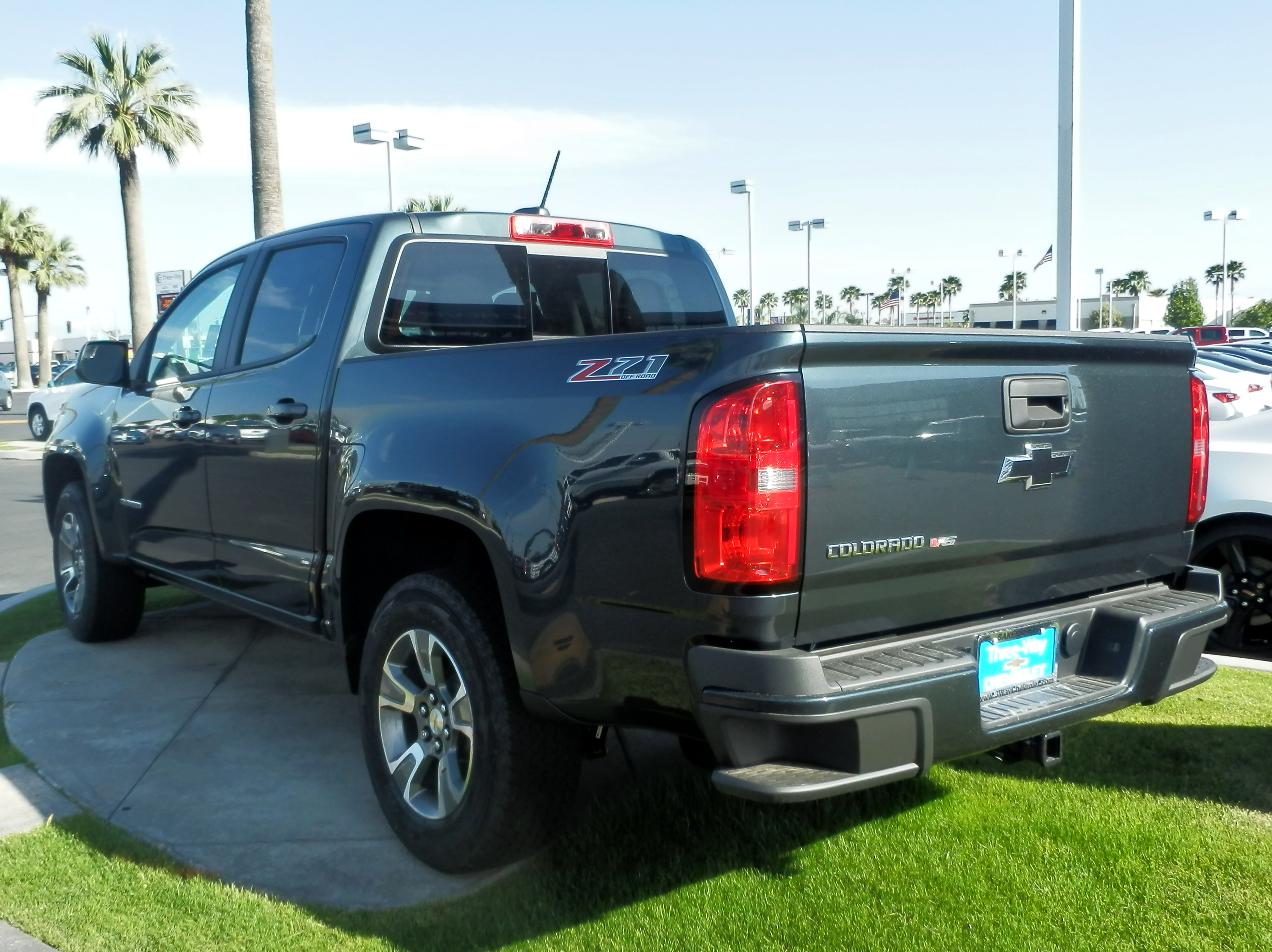 Chevrolet Colorado in Bakersfield